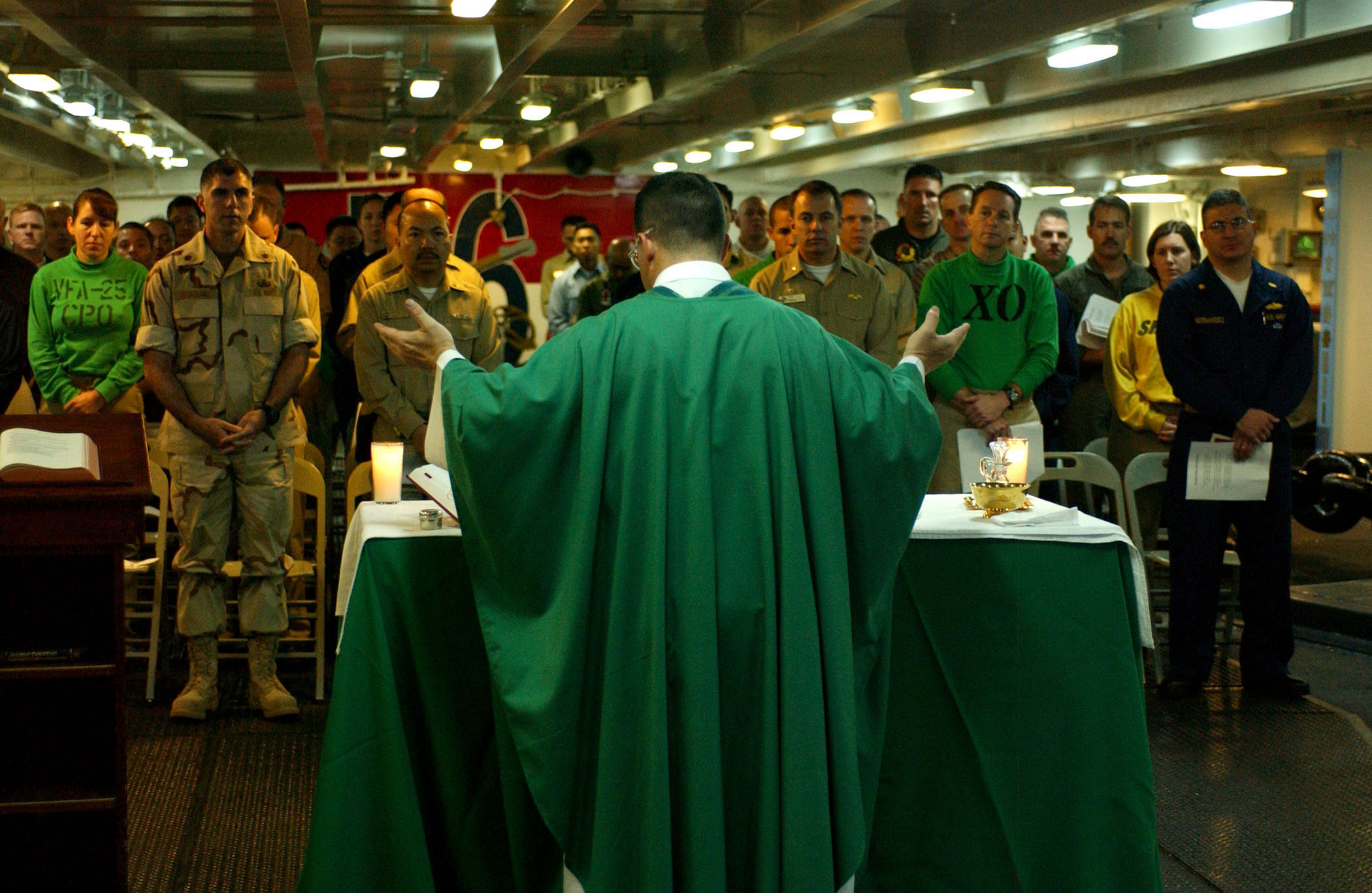 060226-N-2959L-092 Persian Gulf (Feb. 26, 2006) - A Navy Chaplain reads the Eucharistic Prayer during Roman Catholic Mass in the foc'sle aboard the Nimitz-class aircraft carrier USS Ronald Reagan (CVN 76). Reagan and embarked Carrier Air Wing One Four (CVW-14) deployed on her maiden deployment conducting Maritime Security Operations (MSO) in the region while participating in the global war on terrorism. U.S. Navy photo by Photographer's Mate 3rd Class Dominique M. Lasco (RELEASED)